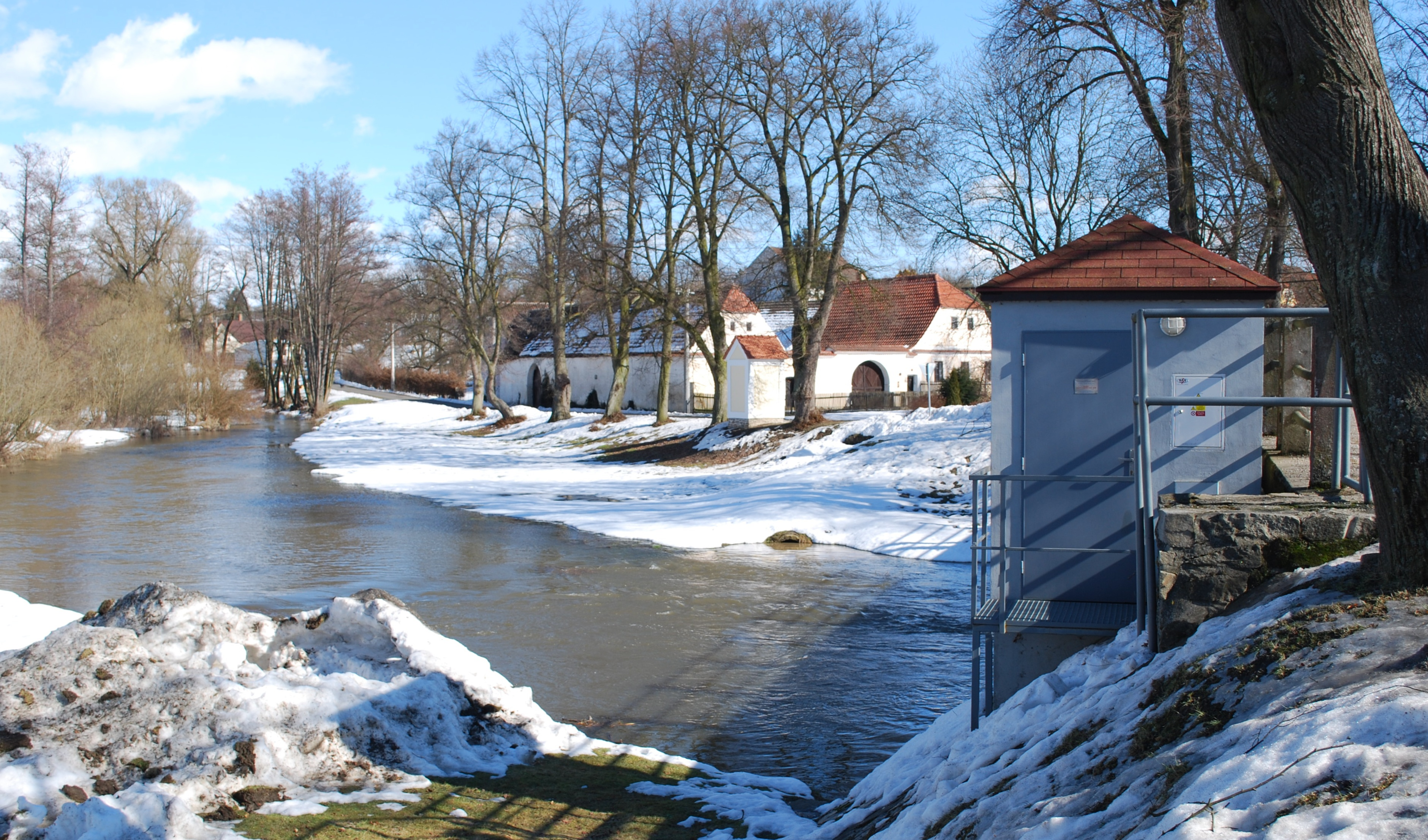 Smutná River in Rataje village in Tábor District, Czech Republic This photograph was taken within the scope of the 'Czech Municipalities Photographs' grant. - OpenStreetMap (Info)